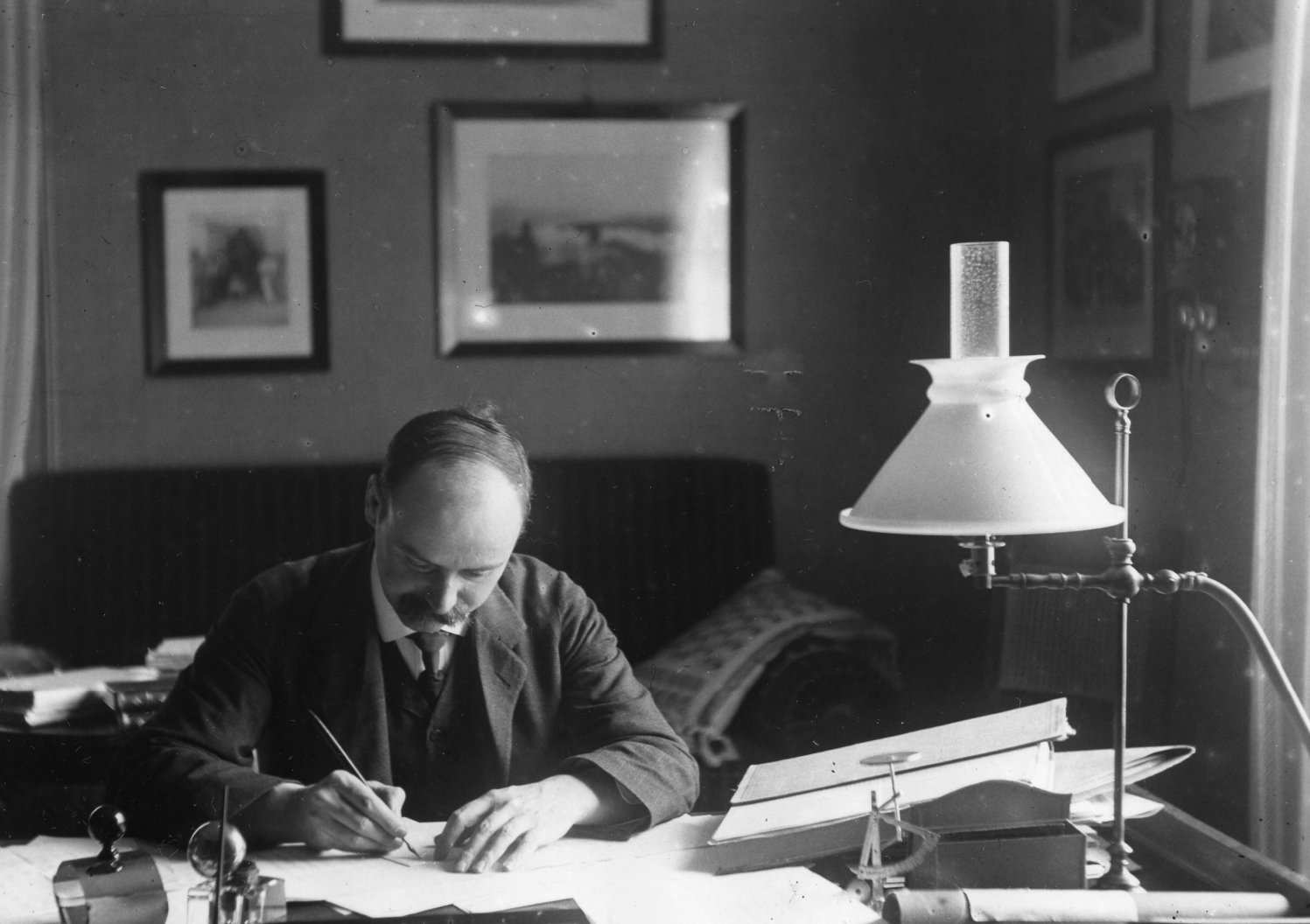 Karl Schwarzschild writing in his study at Potsdam. Courtesy AIP Emilio Segr`e Visual Archives.